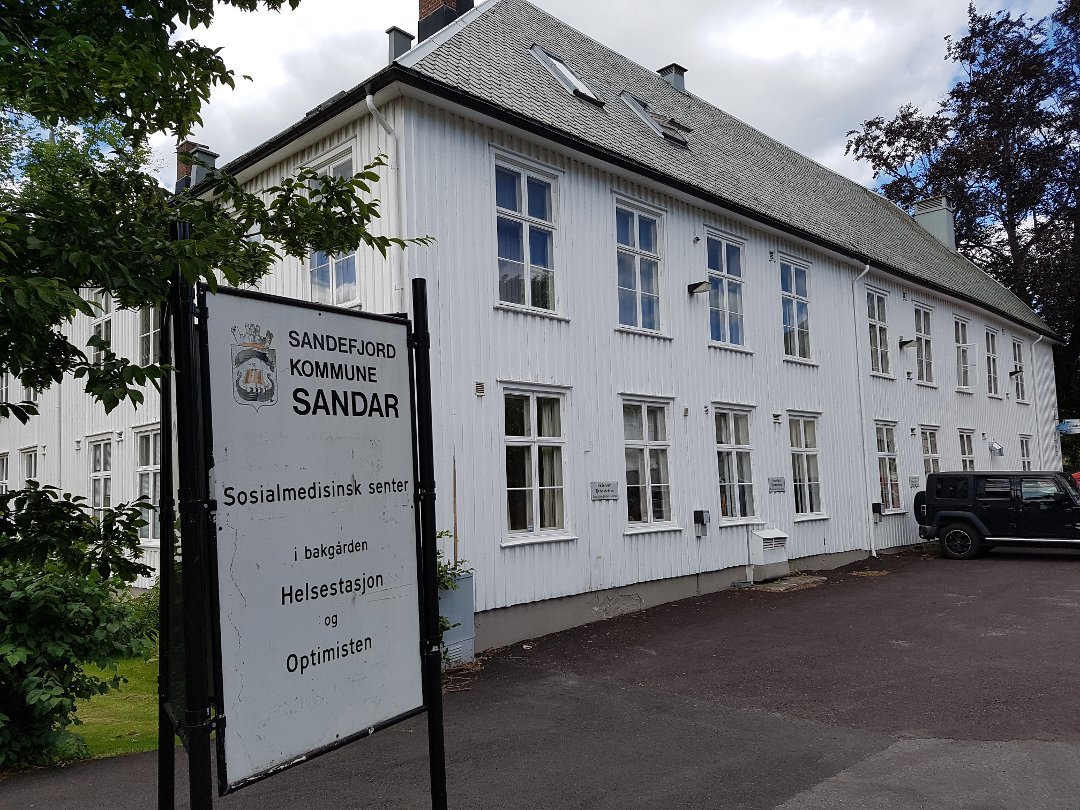 Sandar Herredshus